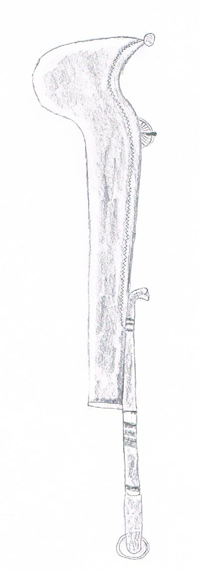 Ram-Da'o